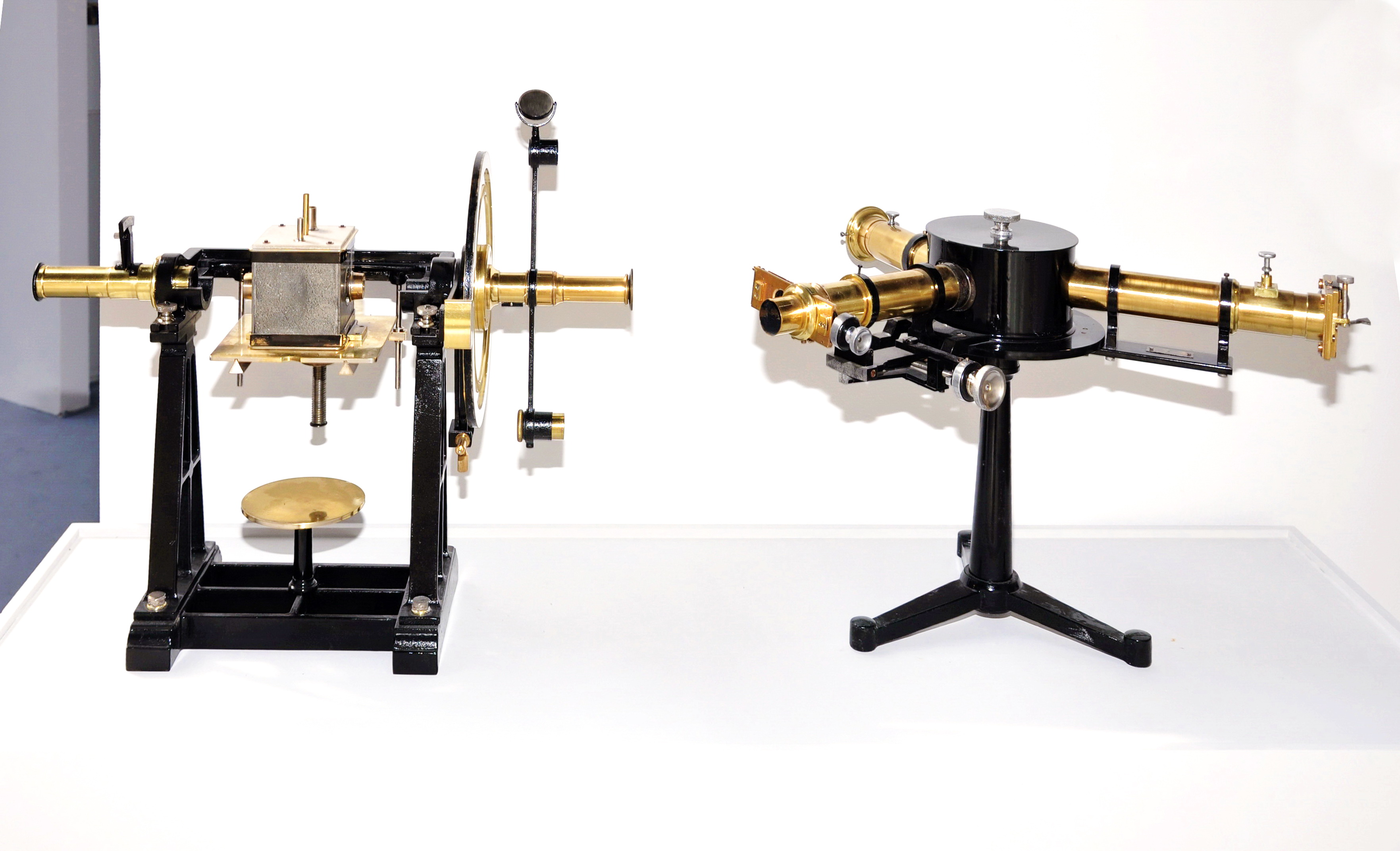 Polarimeter and spectrophotometer. They are located in Museum of Science and Technology Belgrade.